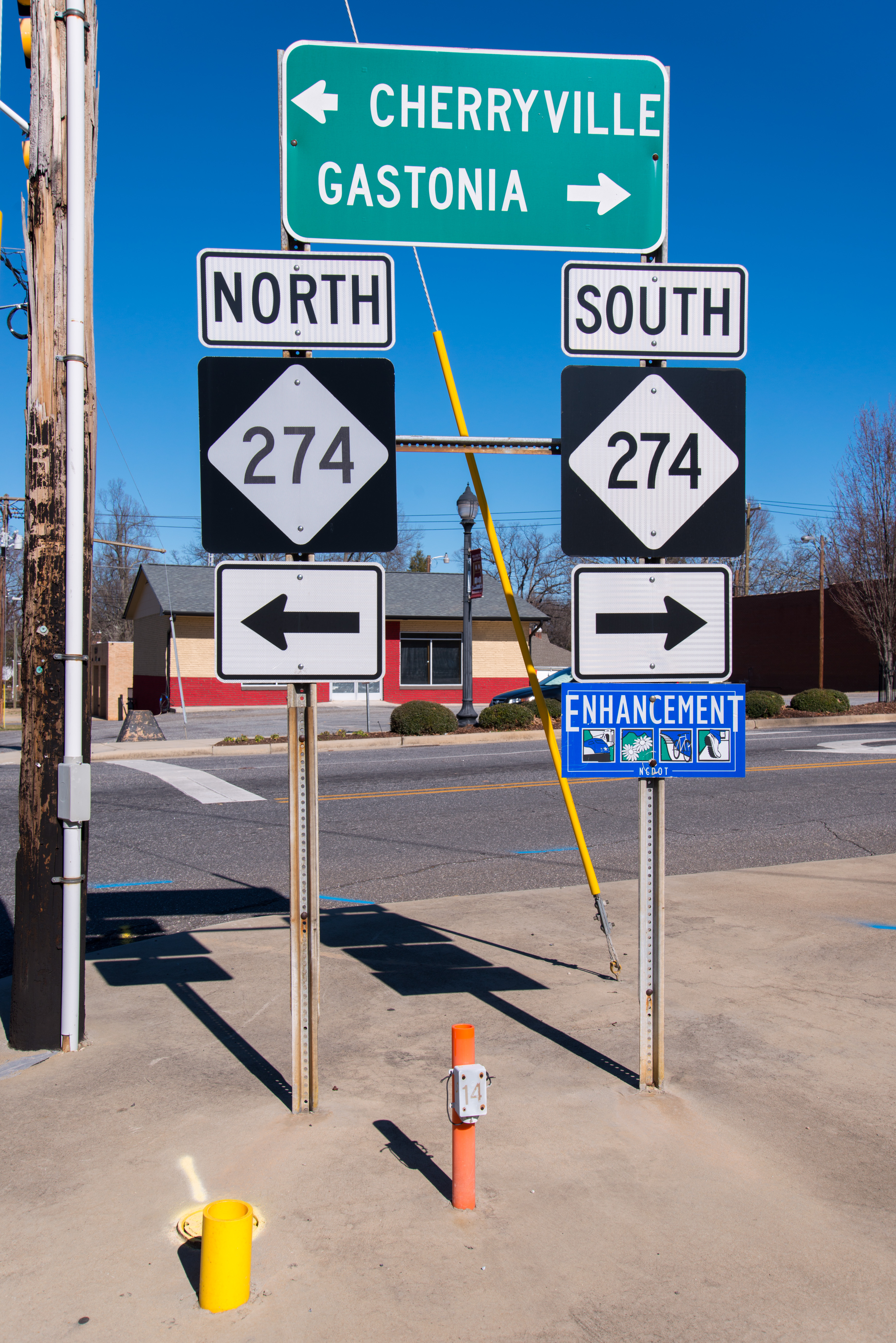 North end of NC 161 (13th Street) at NC 274 (Virginia Street), in Bessemer City, North Carolina.